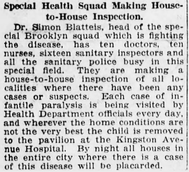 Article on Simon R. Blatteis and the polio epidemic of 1916, from "Infant Paralysis Kills 42 Brooklyn Children in a Week", The Brooklyn Daily Eagle (June 30, 1916), p. 1.